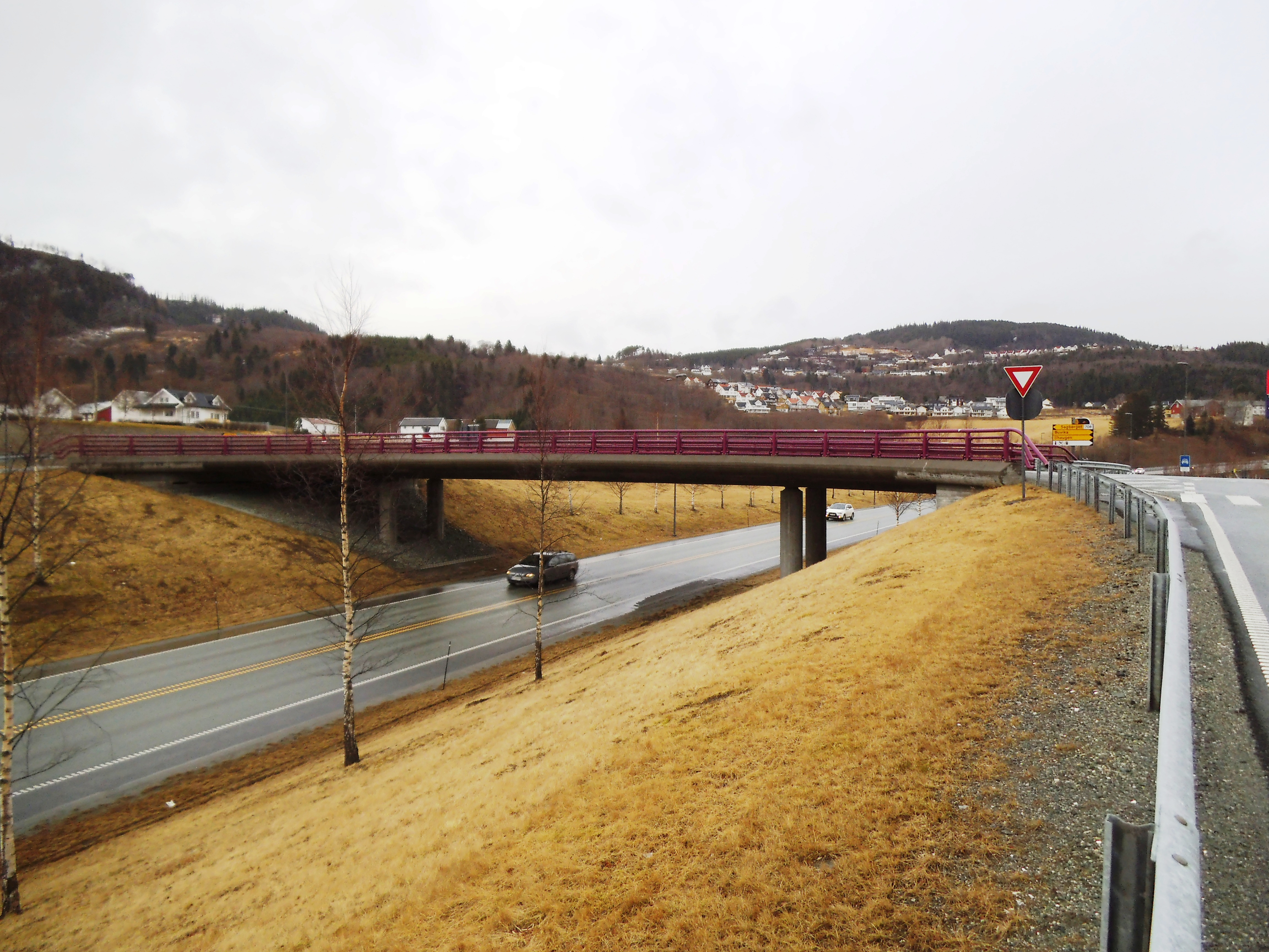 A road bridge located in Buvika, Skaun, Norway. Built in 2005.